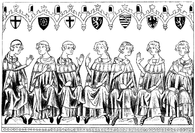 The prince-electors or electoral princes of the Holy Roman Empire were the members of the electoral college of the Holy Roman Empire, having the function of electing the Emperors of Germany.